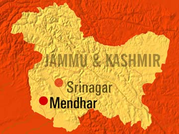 mendher on jk map